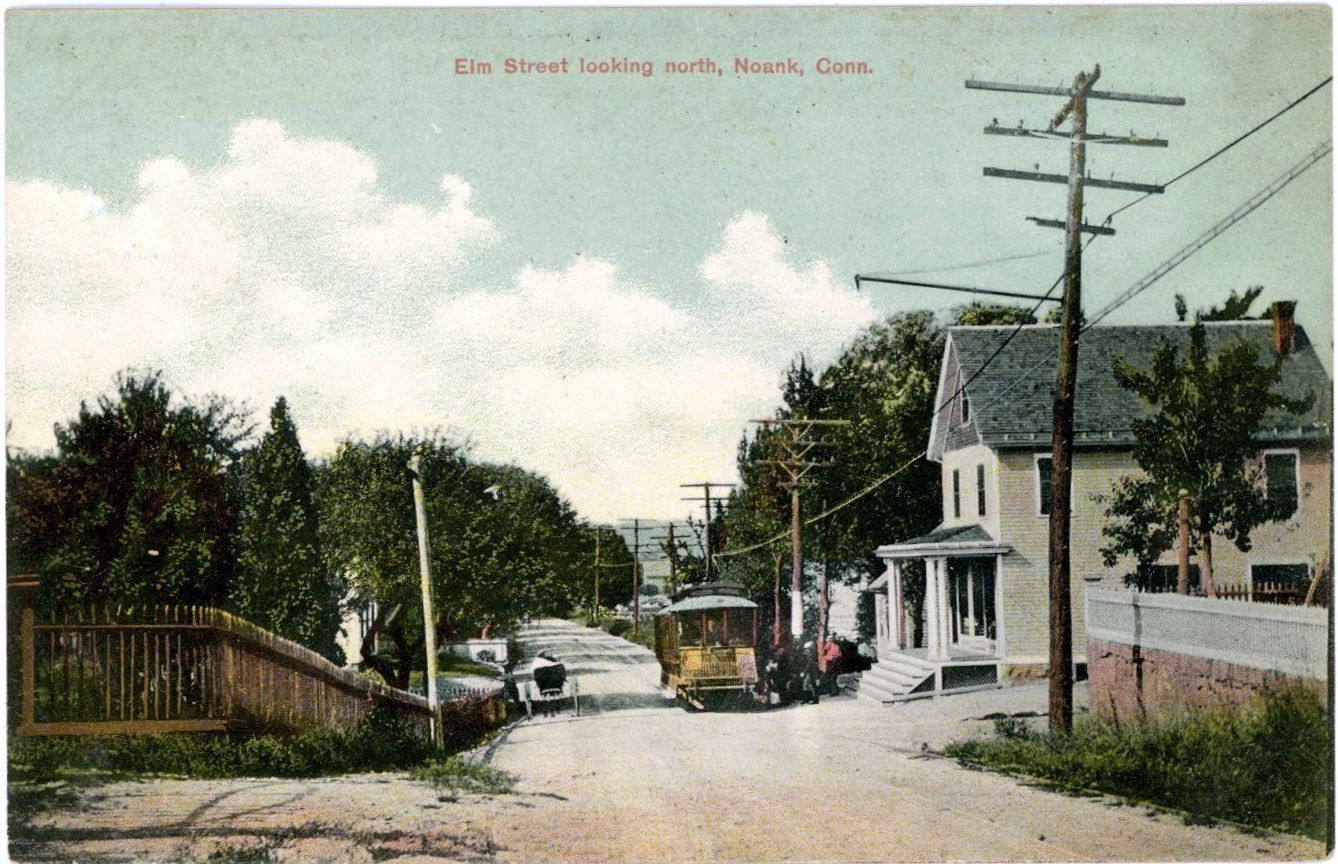 Early divided back postcard of a Groton & Stonington Street Railway trolley on Elm Street near Spicer Avenue in Noank, Connecticut